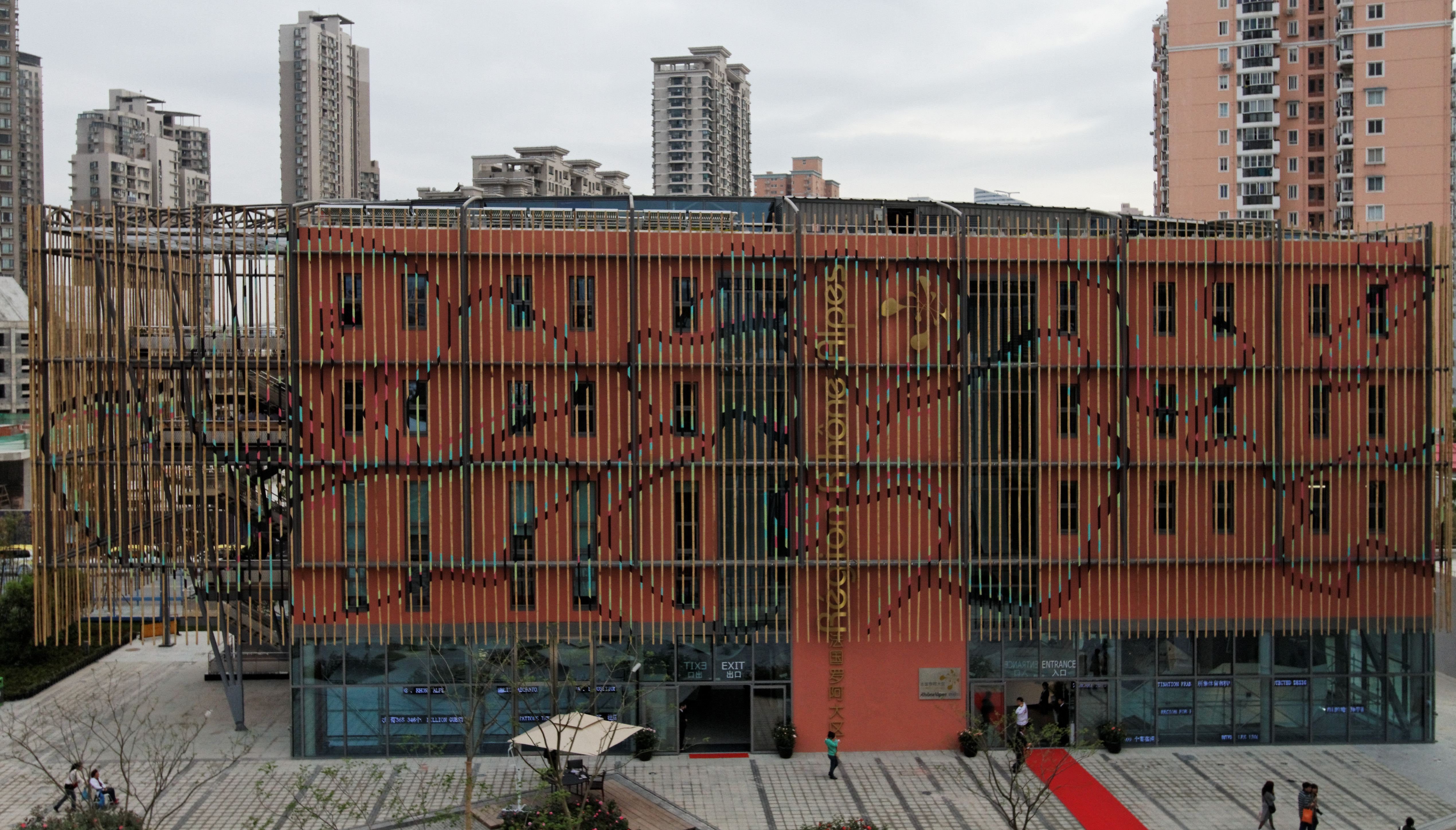 Rhône-Alpes Case Pavilion, from the roof of the Alsace Case Pavilion. Urban Best Practices Area, Expo 2010.